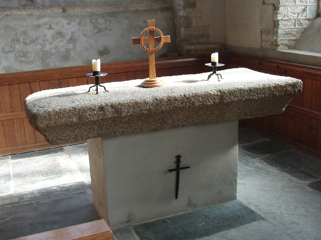 Ancient altar stone at Jacobstow Church This altar is in the South Aisle Chapel. It was the main altar stone up to about 1550 in the reign of Edward VI when the Church of England was becoming more Protestant and an act required that all altar stones should be removed. This one became a footbridge over a stream. It was found and moved back to the churchyard as a seat in the 1800s, and installed in the south aisle chapel in 1972. The nails that form the cross on the base of the altar are 15th century, and were saved from roof restoration work in 1970.